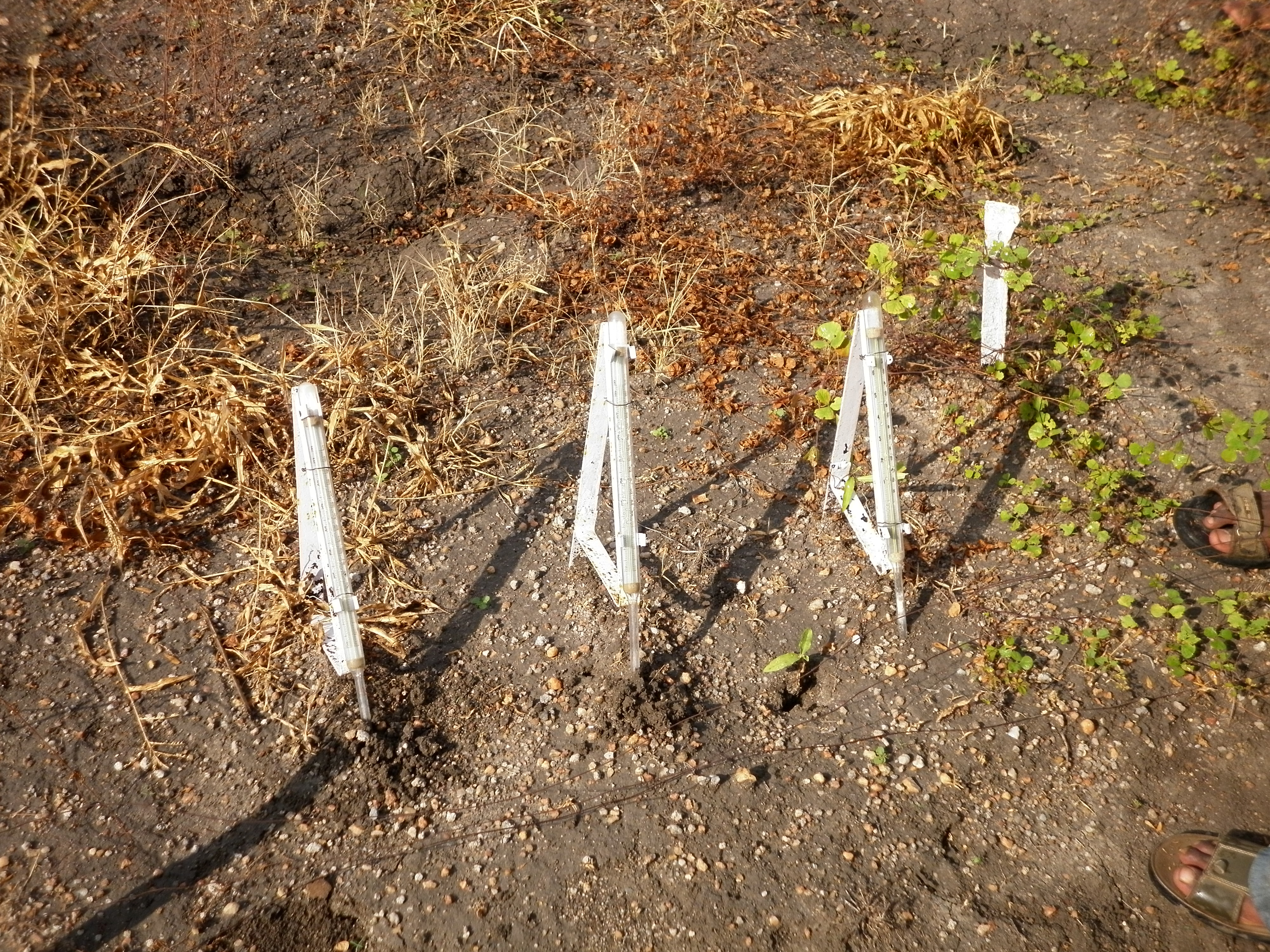 This is taken atARS Kovilpatti,Tuticorin,Tamilnadu,India